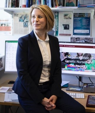 Anna Middleton in her office.